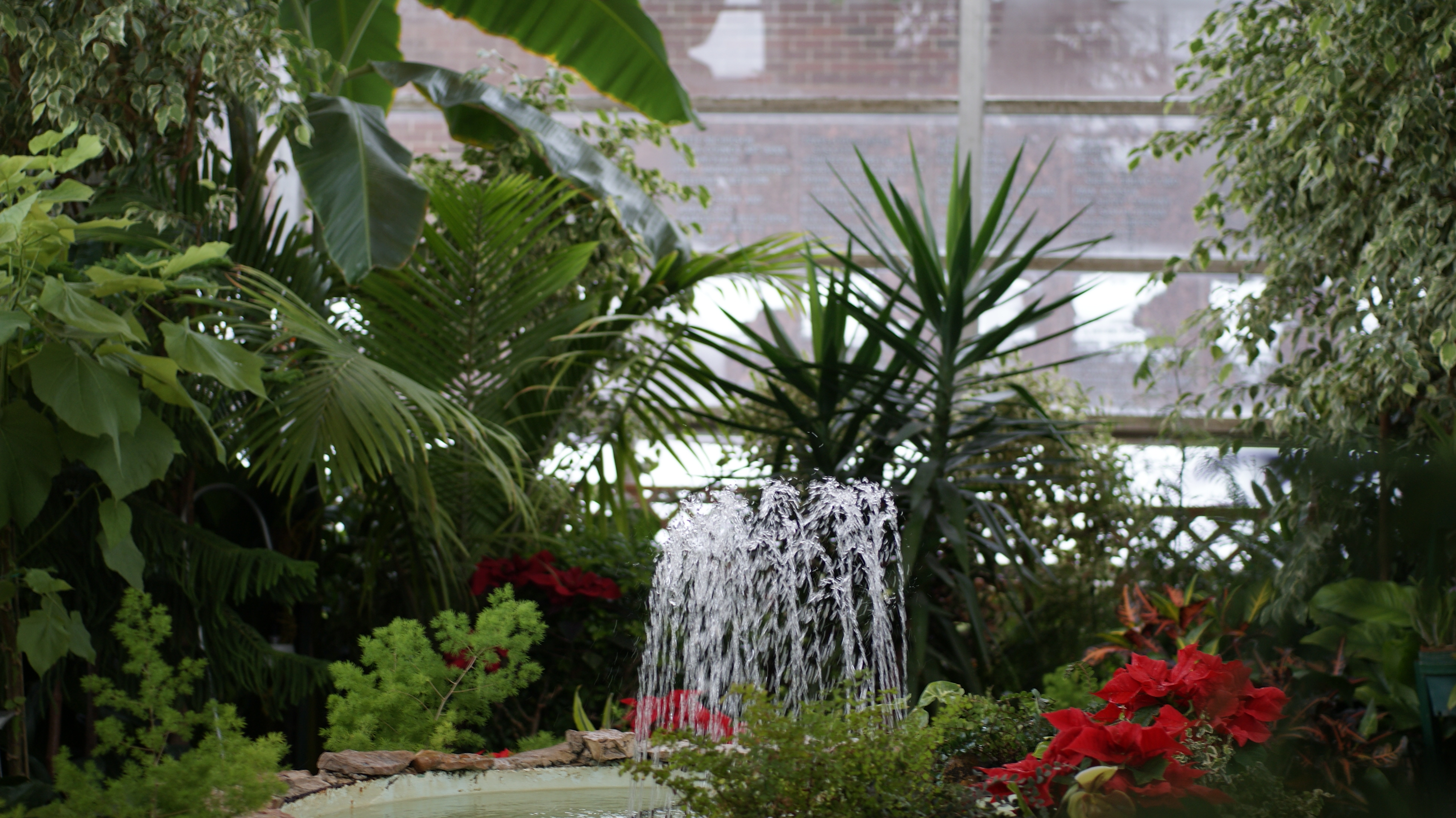 Wikipedia:Mendel Art Gallery and Civic Conservatory, City Park , Core Neighbourhoods SDA, Saskatoon, Saskatchewan, Canada